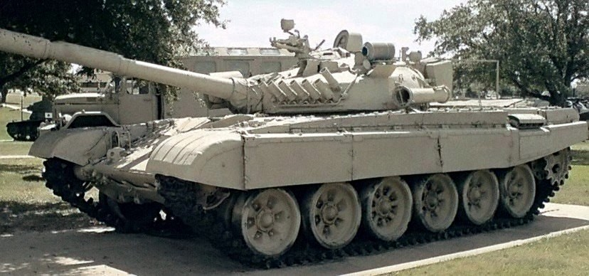 A full equipped Asad Babil on display at Fort Hood. The tank features a cilindric electro-optical countermeasures pod on the left side of the turret.